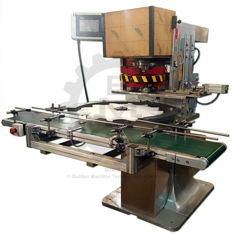 Fully Automatic Can Seamer